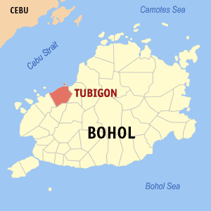 Map of Bohol showing the location of Tubigon